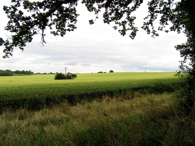 Wheat Growing on Farmland near Burghfield. This section of the square was taken from the minor road looking east across the northern half of the square. The square is largely farmland.